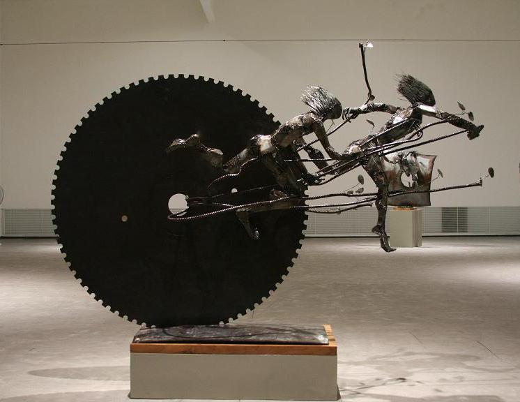 picture Putu Sutawijaya